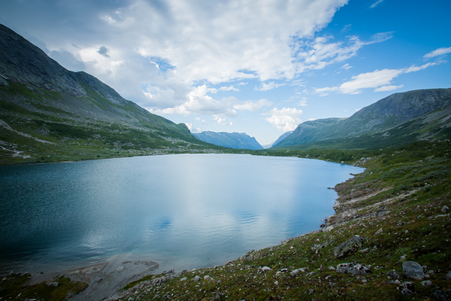 Lake "Blåvatnet" in Jølster.